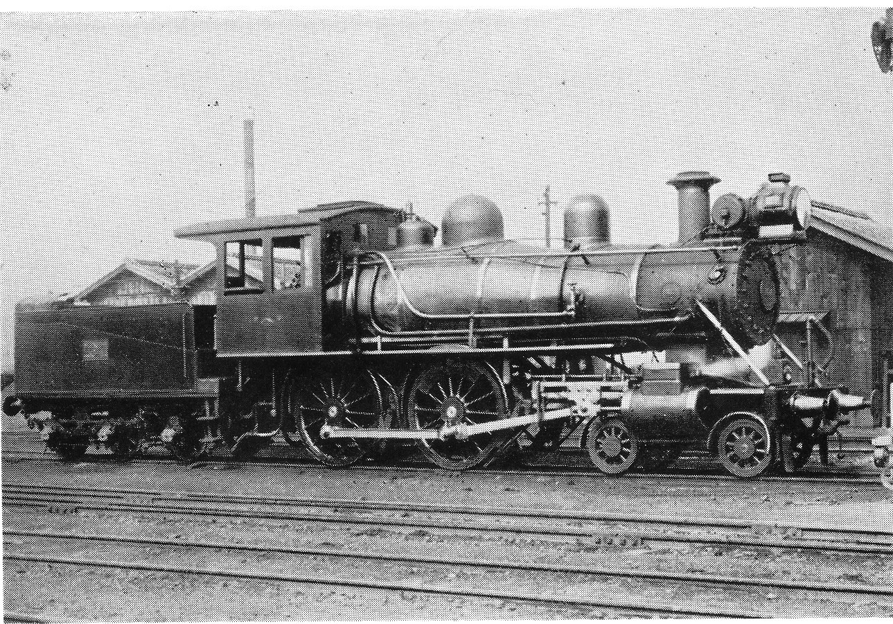 Japan Government Railway type 5900 steam locomotive